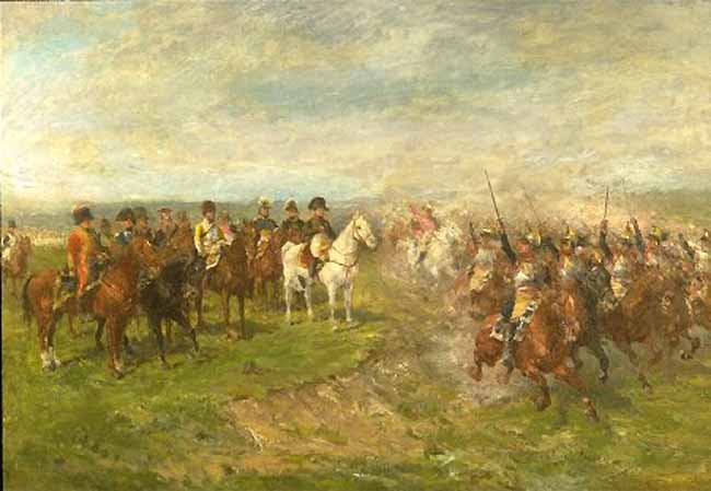 "Napoléon pendant la bataille de Wagram" - Napoleon at the battle of Wagram and cuirassiers cheering as they are passing by during a cavalry charge.